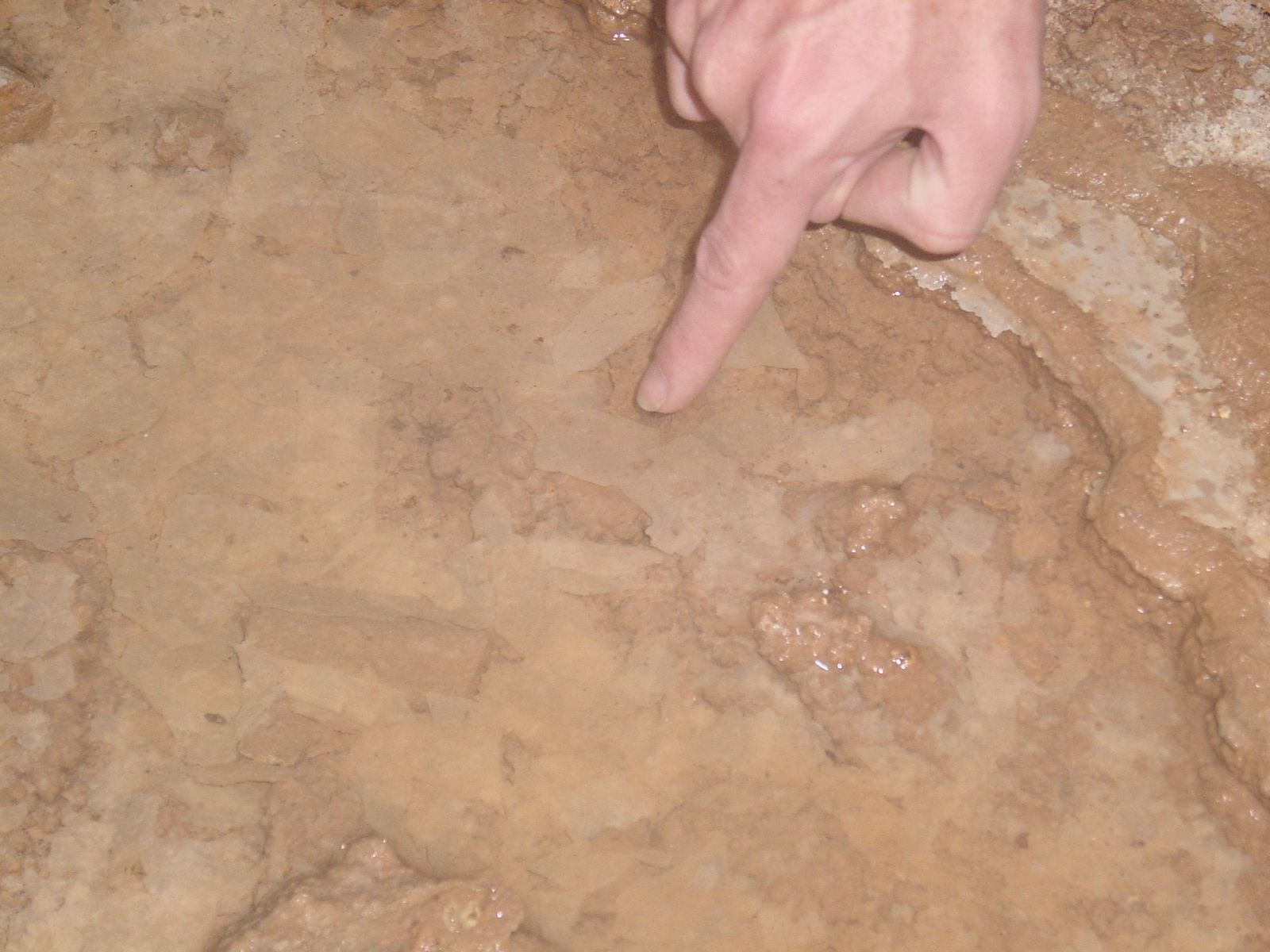 Photo showing calcite rafts in Kartchner Caverns, Arizona